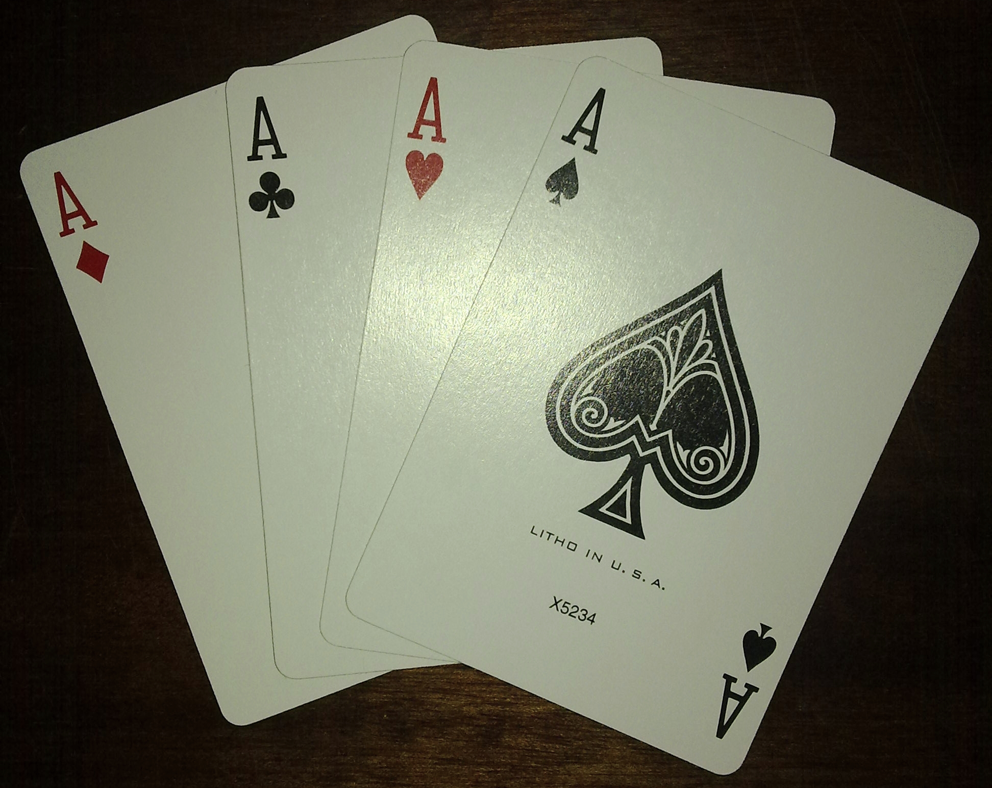 4 Aces